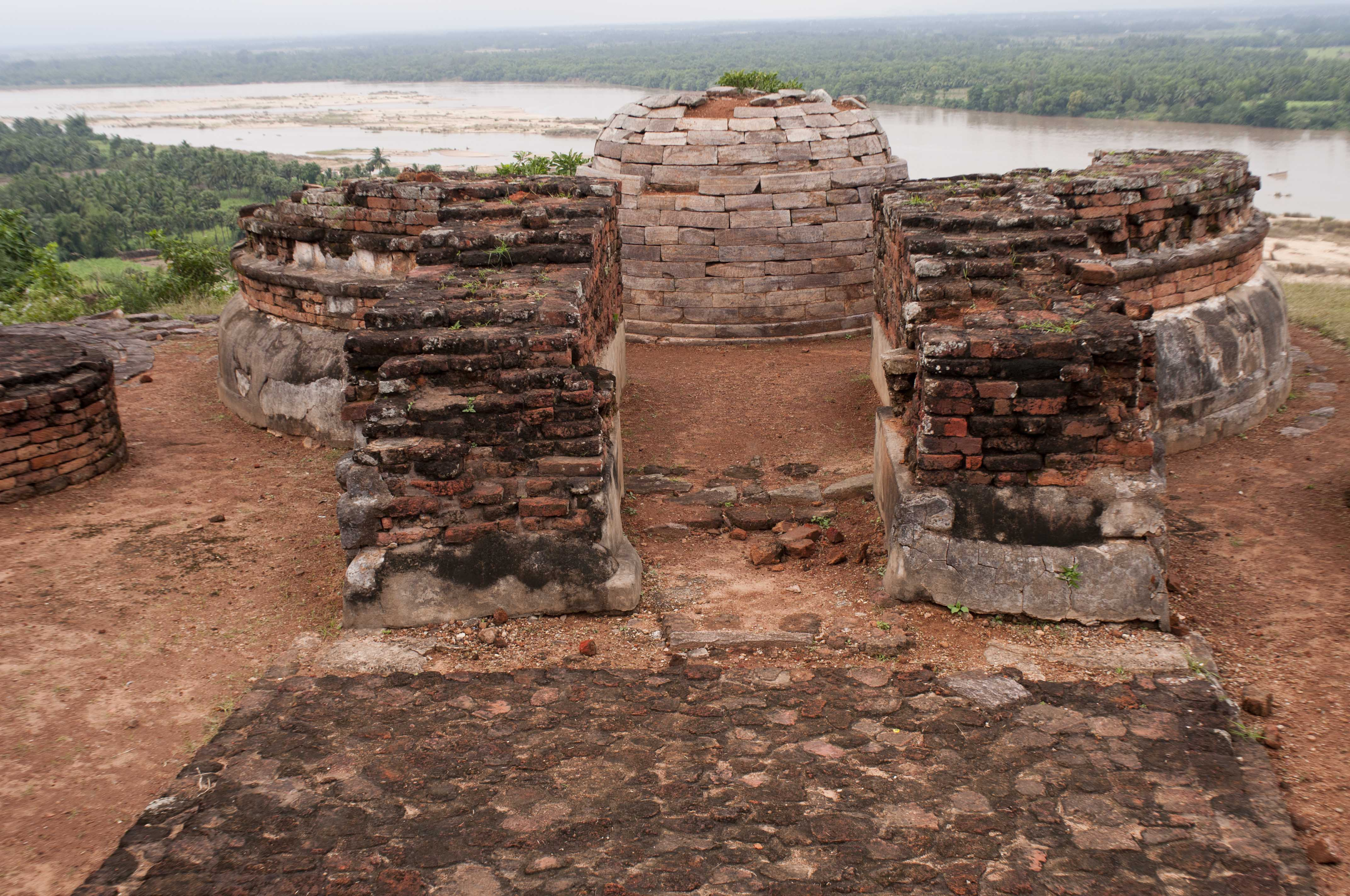 Eastern portion of Salihundam hill containing Buddhist remains ( A Chaitya and four stupas)